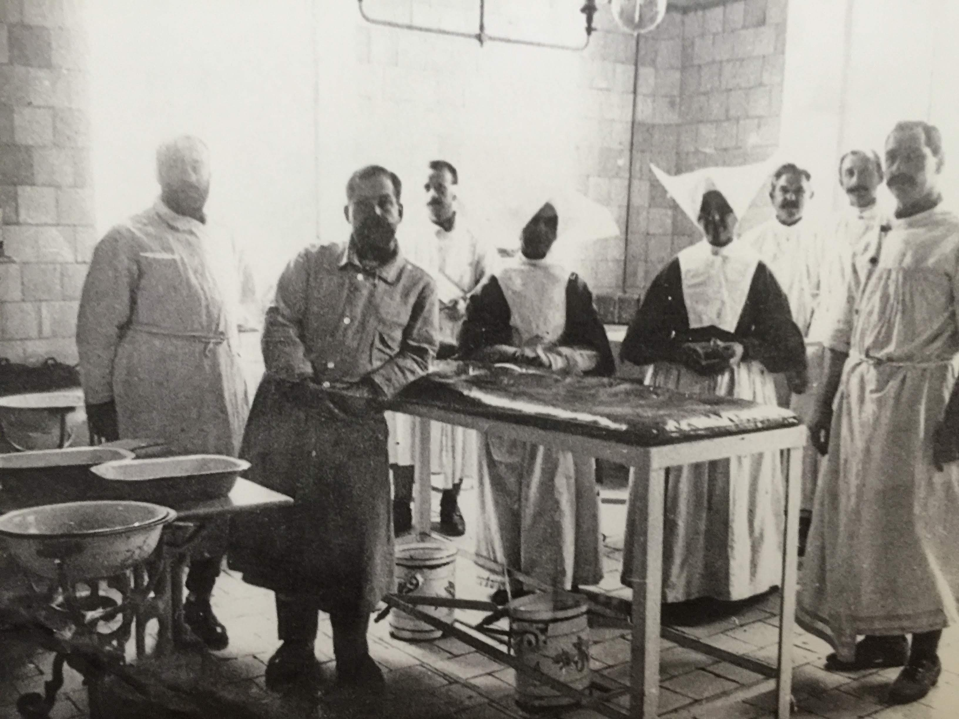 The hospital in Thessaloniki